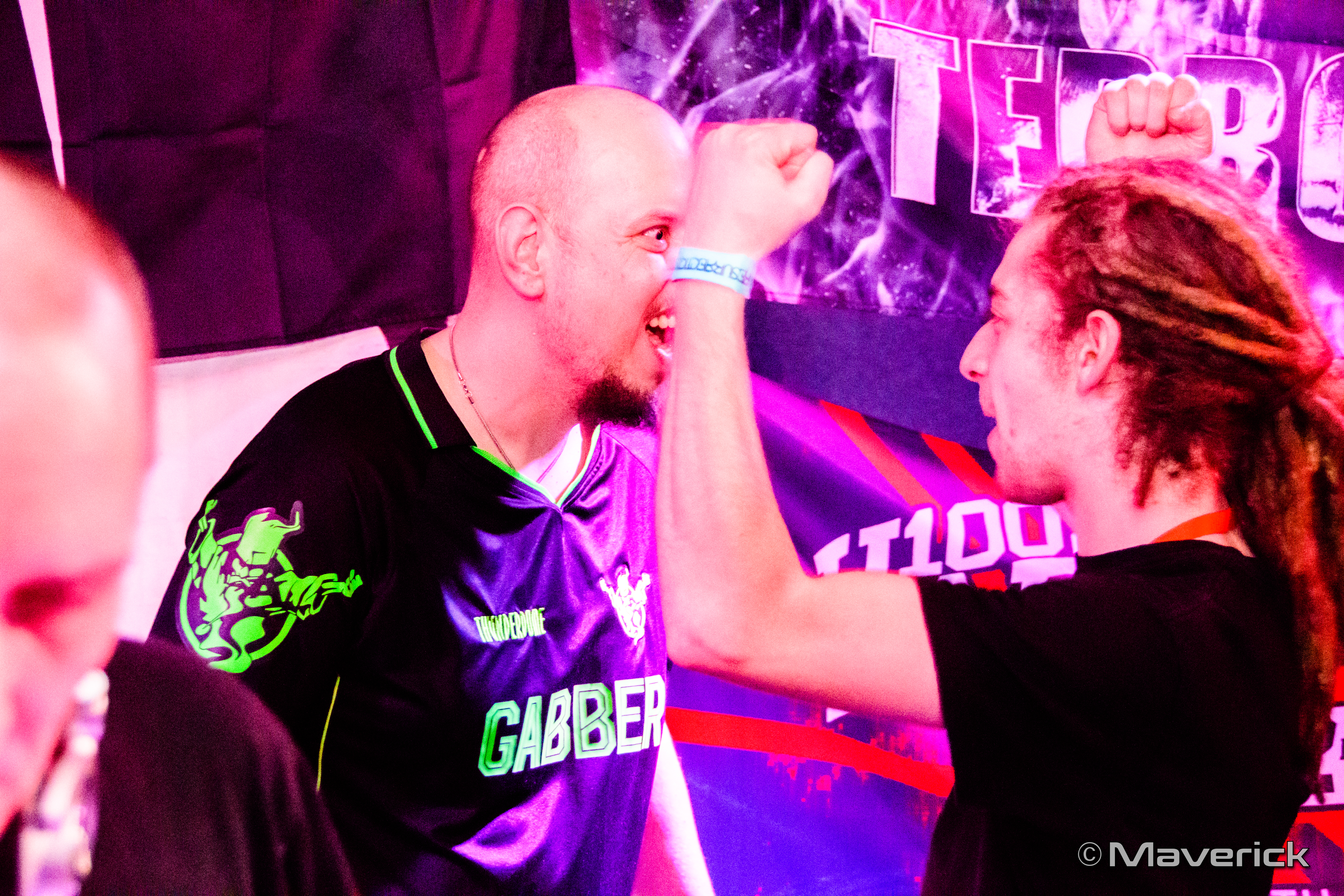 BCB Session 09.12.2017